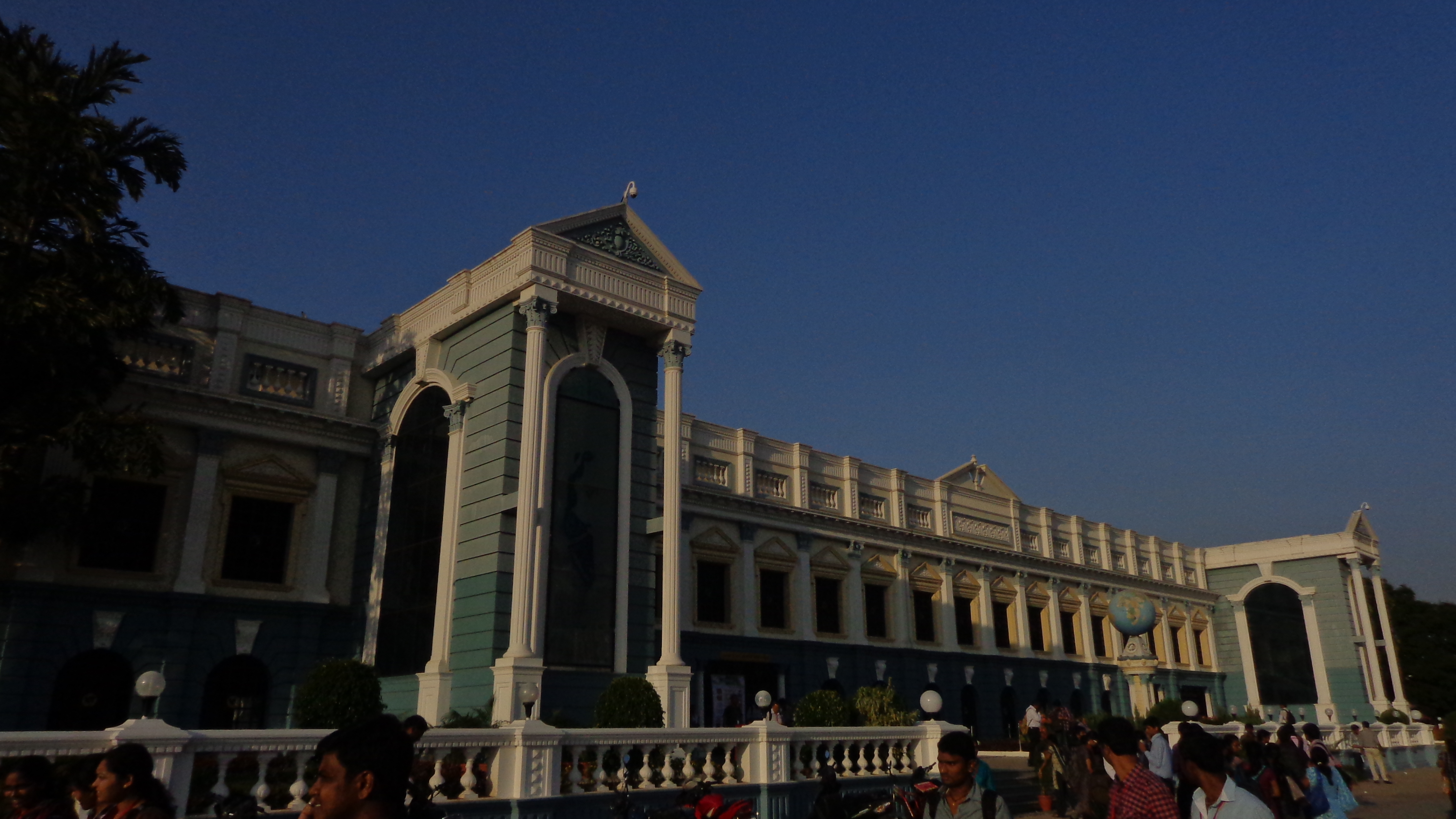 DR T.P Ganesan Auditorium of SRM University, Chennai.